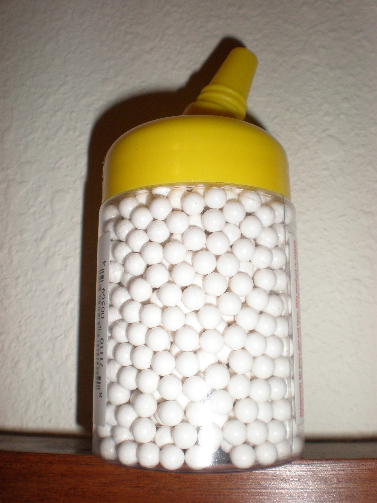 An bottle of 500 airsoft 25g BBs